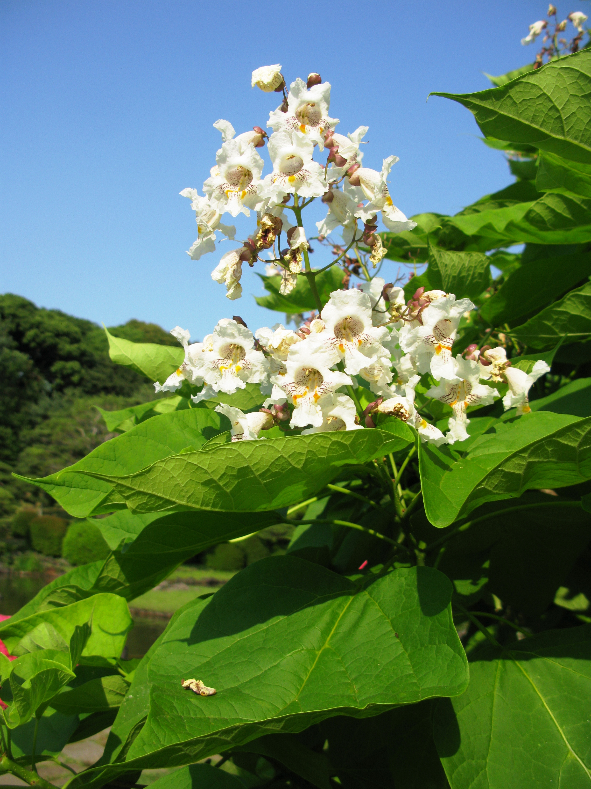 Catalpa speciosa, Koishikawa Botanical Gardens, The University of Tokyo, Japan